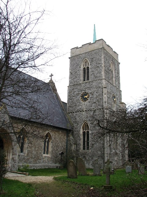 Southeast tower of the parish church of St John the Evangelist, Standon, Hertfordshire, seen from the west